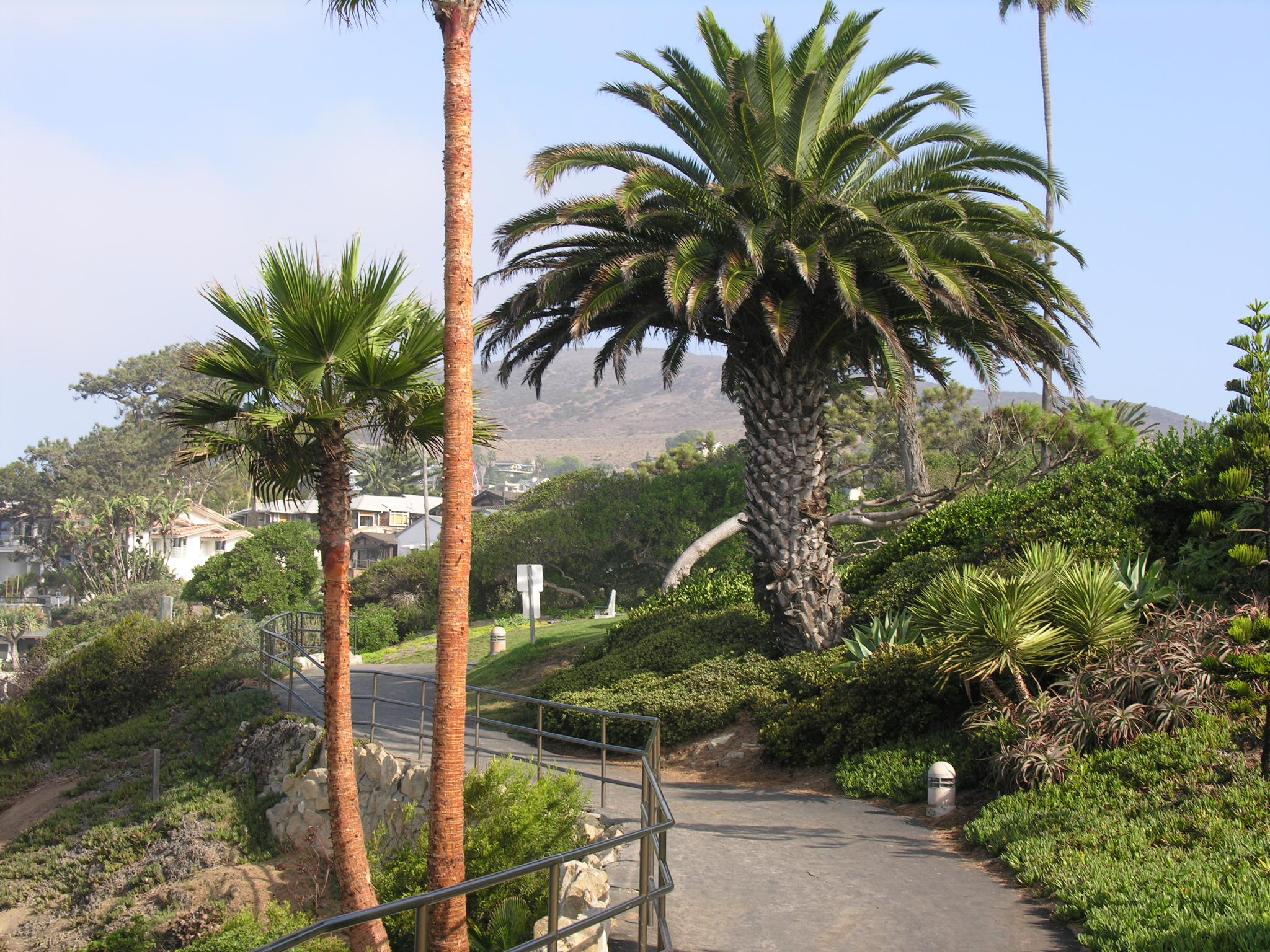 Paradise Walk